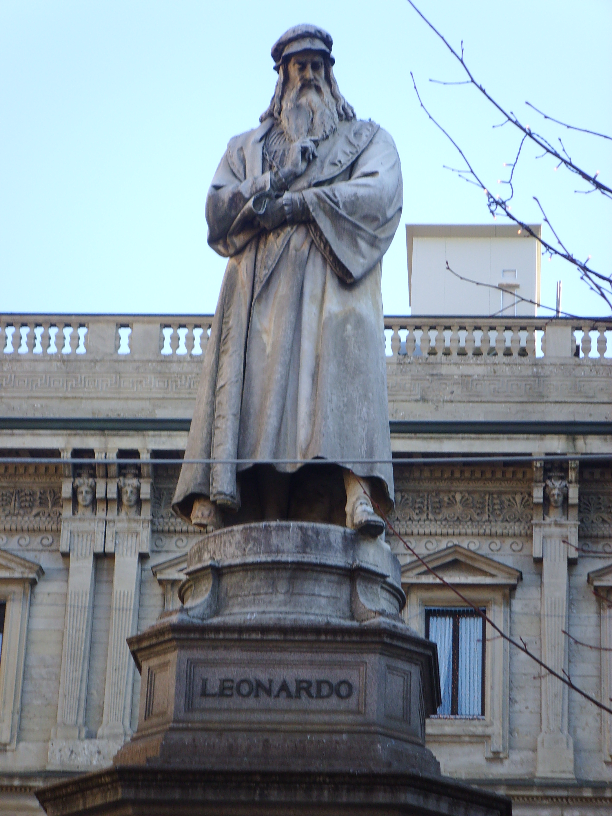 Leonardo Da Vinci statue. Milan, Italy.